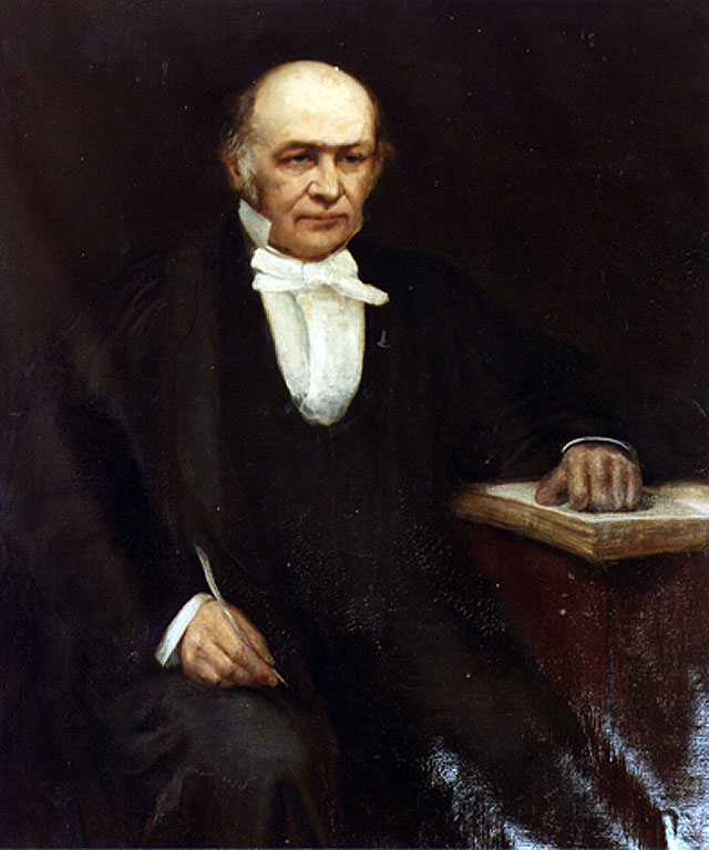 Painting of Sir William Rowan Hamilton.